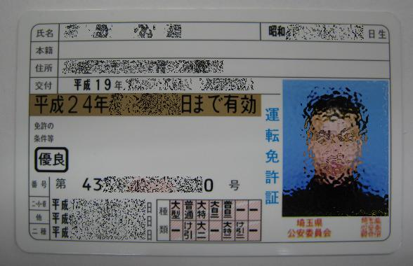 Japanese Gold Driver's License